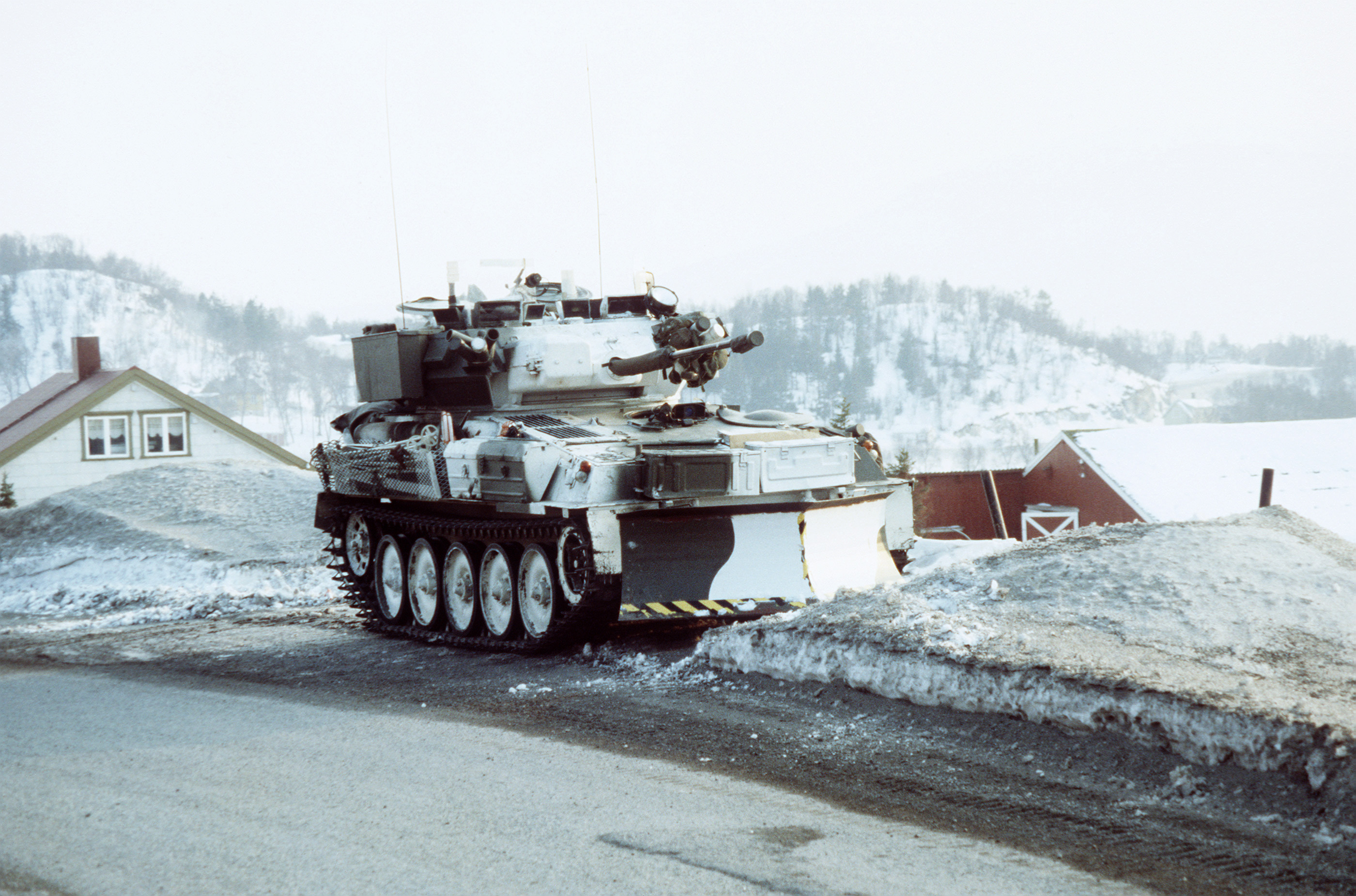 Caption: "A British Scimitar reconnaissance vehicle is parked on a roadside during Operation COLD WINTER '87, a NATO-sponsored military exercise."